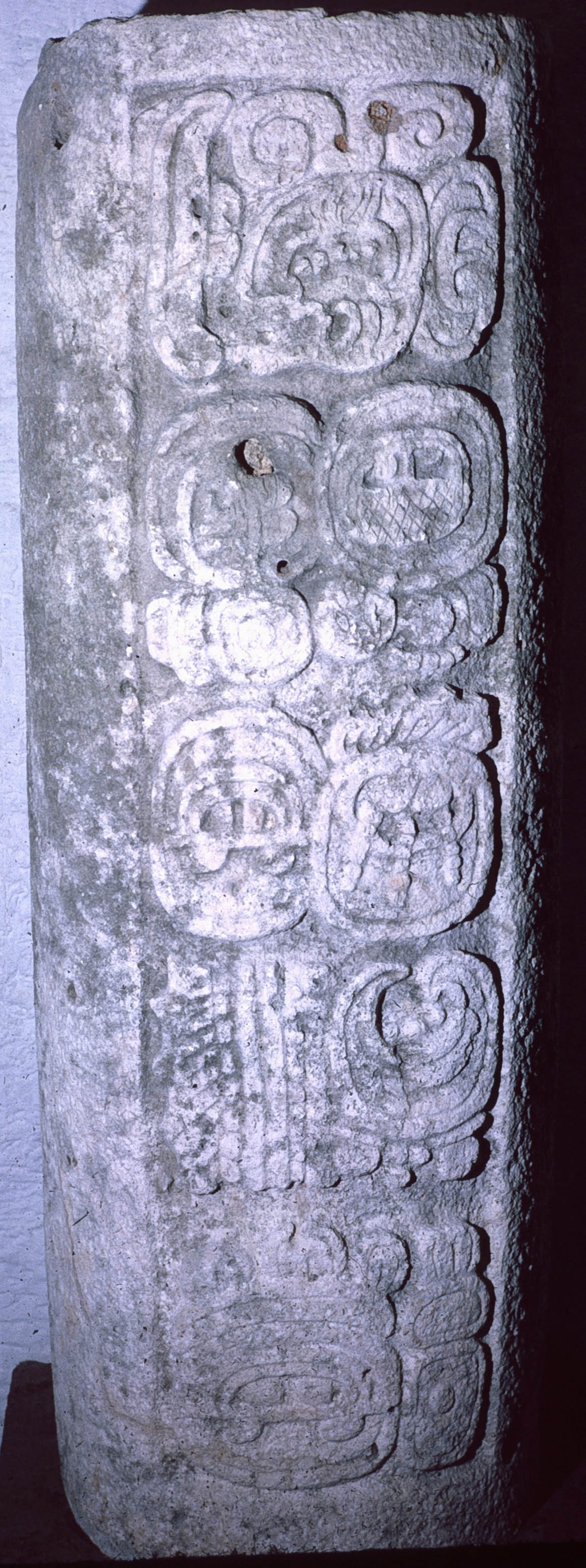 Xcalumkin, Campeche, Mexico: Hieroglyph Grupo, South building, right doorjamb